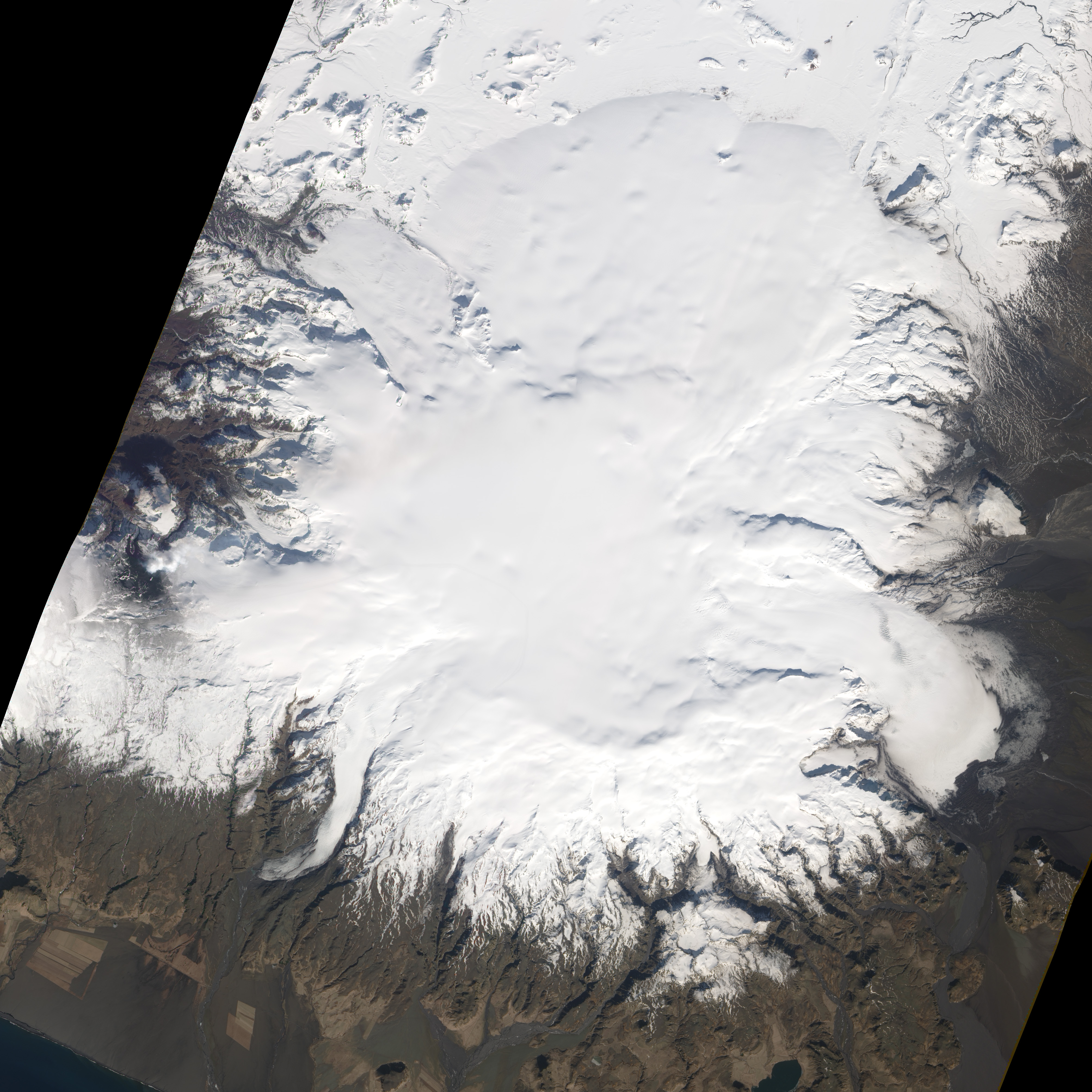 Lava continued to pour out of two fissures near Eyjafjallajökull as the eruption near the Fimmvörduháls Pass entered its third week. This satellite image shows the eruption on April 4, 2010. The original fissure—originally about 1,000 meters (3,000 feet) long and composed of several distinct vents—has coalesced into a single vent. The new fissure is hidden under a volcanic plume, likely composed primarily of steam. Black lava flows reach several kilometers north from the vents, eventually spilling into Hvannárgil and Hrunagil Canyons. This image was acquired by the Advanced Land Imager (ALI) aboard NASA’s Earth Observing-1 (EO-1) satellite.